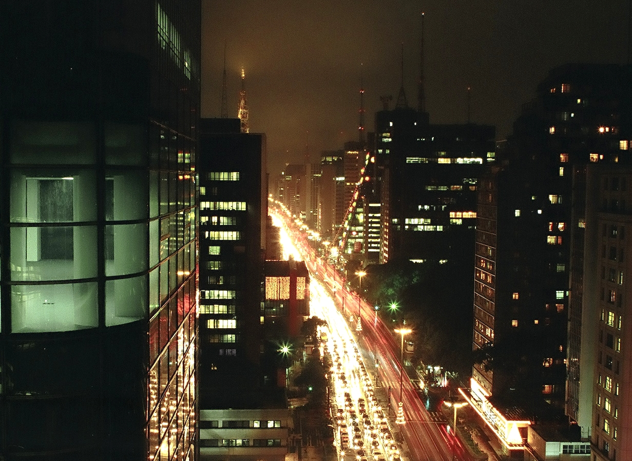 Picture taken at the Luiz de Moraes Barros Building, Av. Paulista 1938, São Paulo - Brazil.